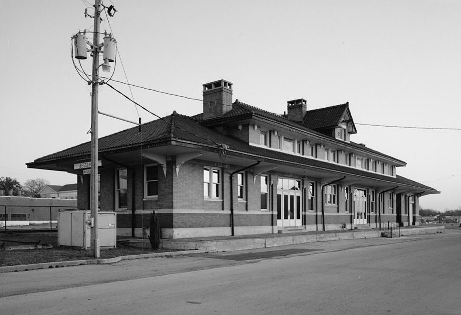 Southern Railway Depot, 1905 Alabama Avenue, Bessemer (Jefferson County, Alabama)